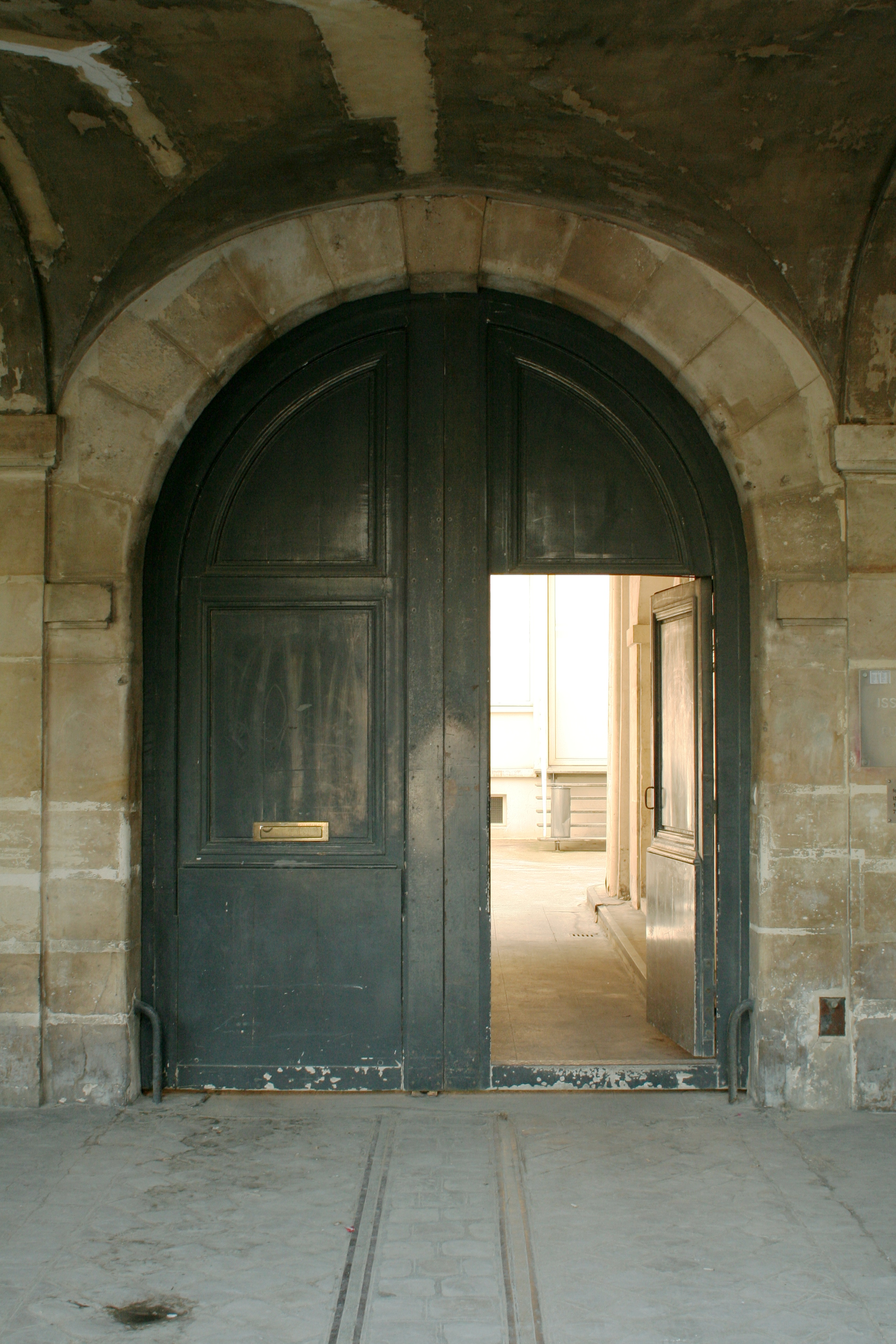 Door of 5 Place des Vosges, Paris.